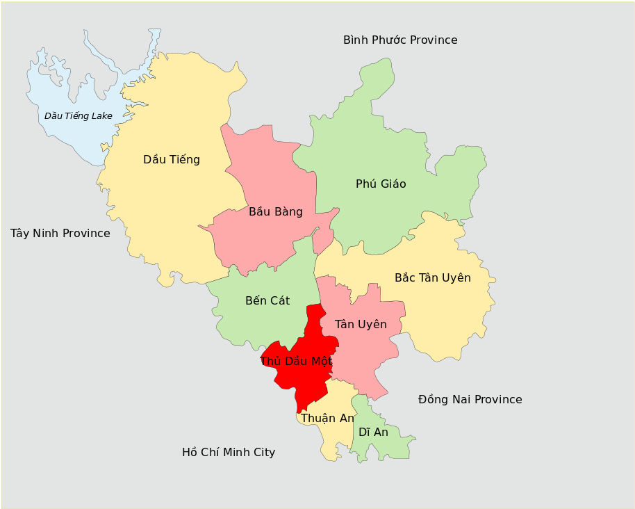 The administrative divisions of Bình Dương Province, Vietnam. Own work. Information according to